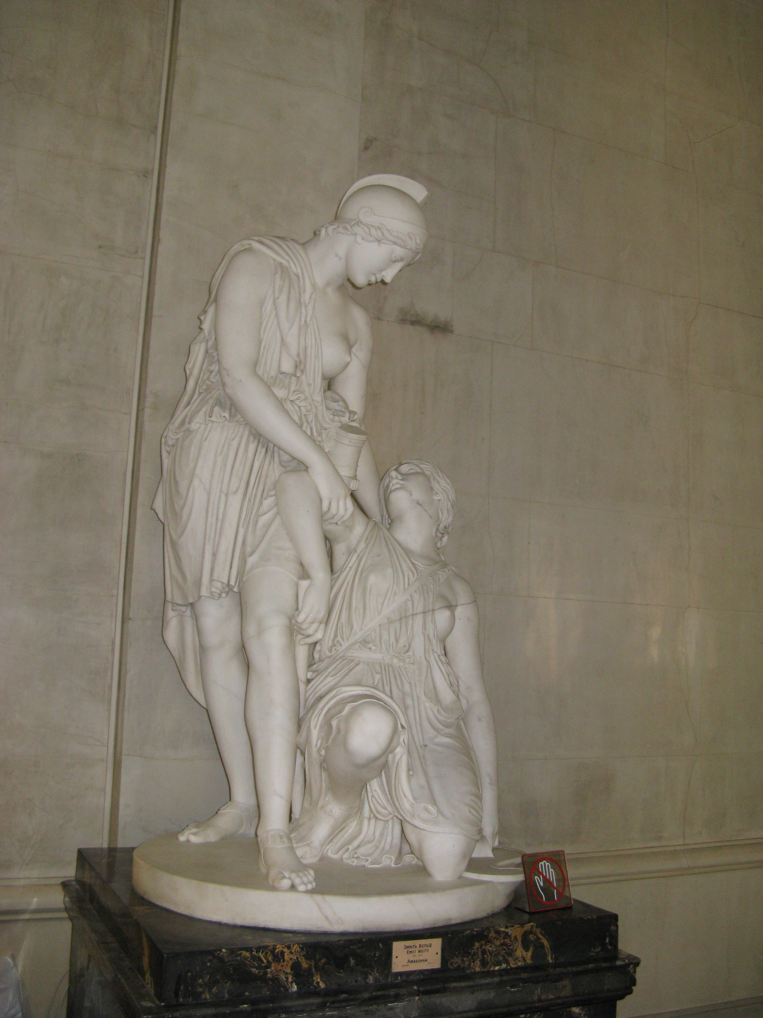 "Penthesilea accidentally killed her sister Hippolyte while hunting", by Emil Wolff at the Hermitage.